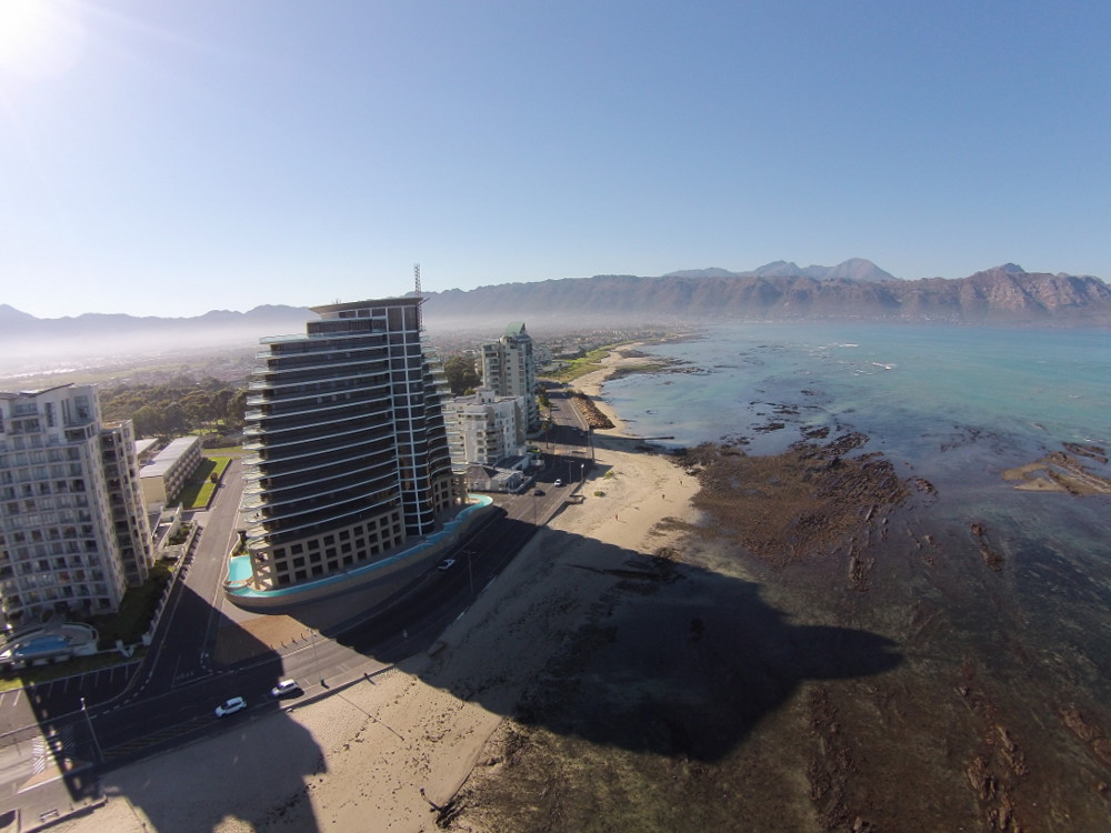 Strand is a seaside resort town situated on the eastern edge of False Bay and at the foot of the Hottentots Holland Mountains.